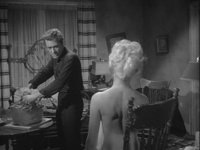 A scene from the public domain film A Bucket of Blood (1959).